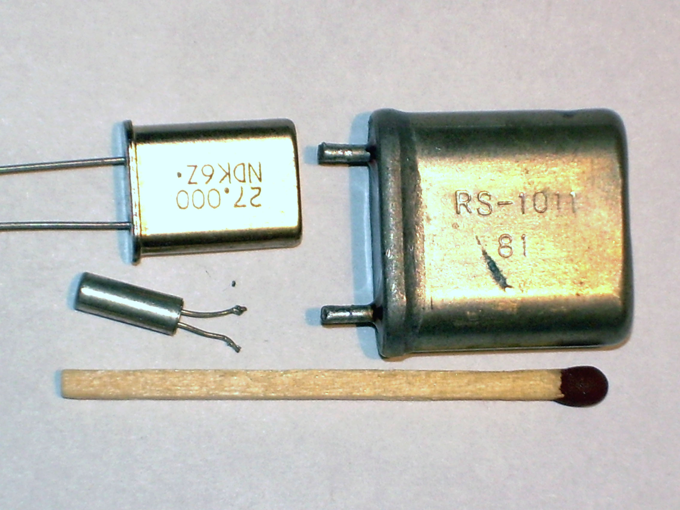 Three quartz resonators used in crystal oscillator circuits